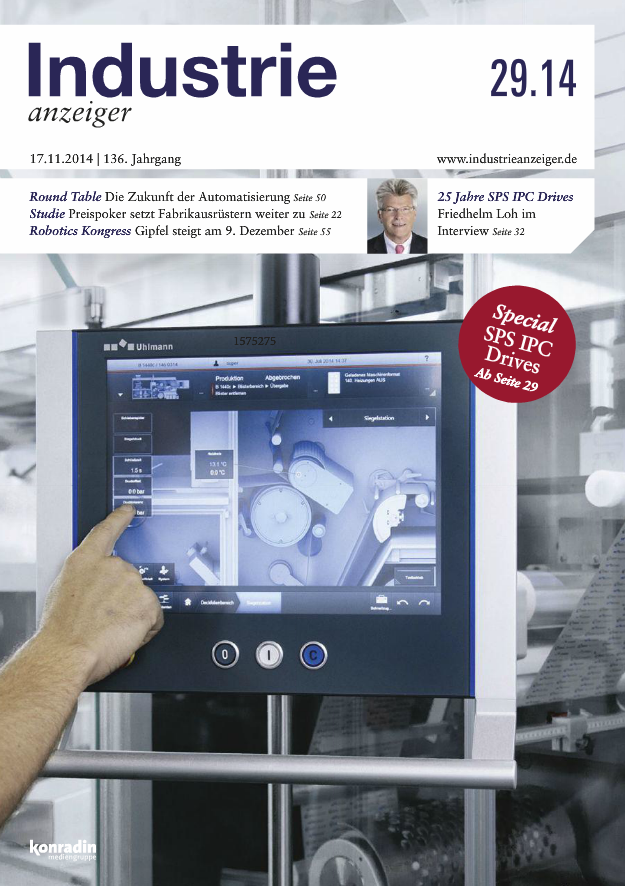 Present cover Industrieanzeiger